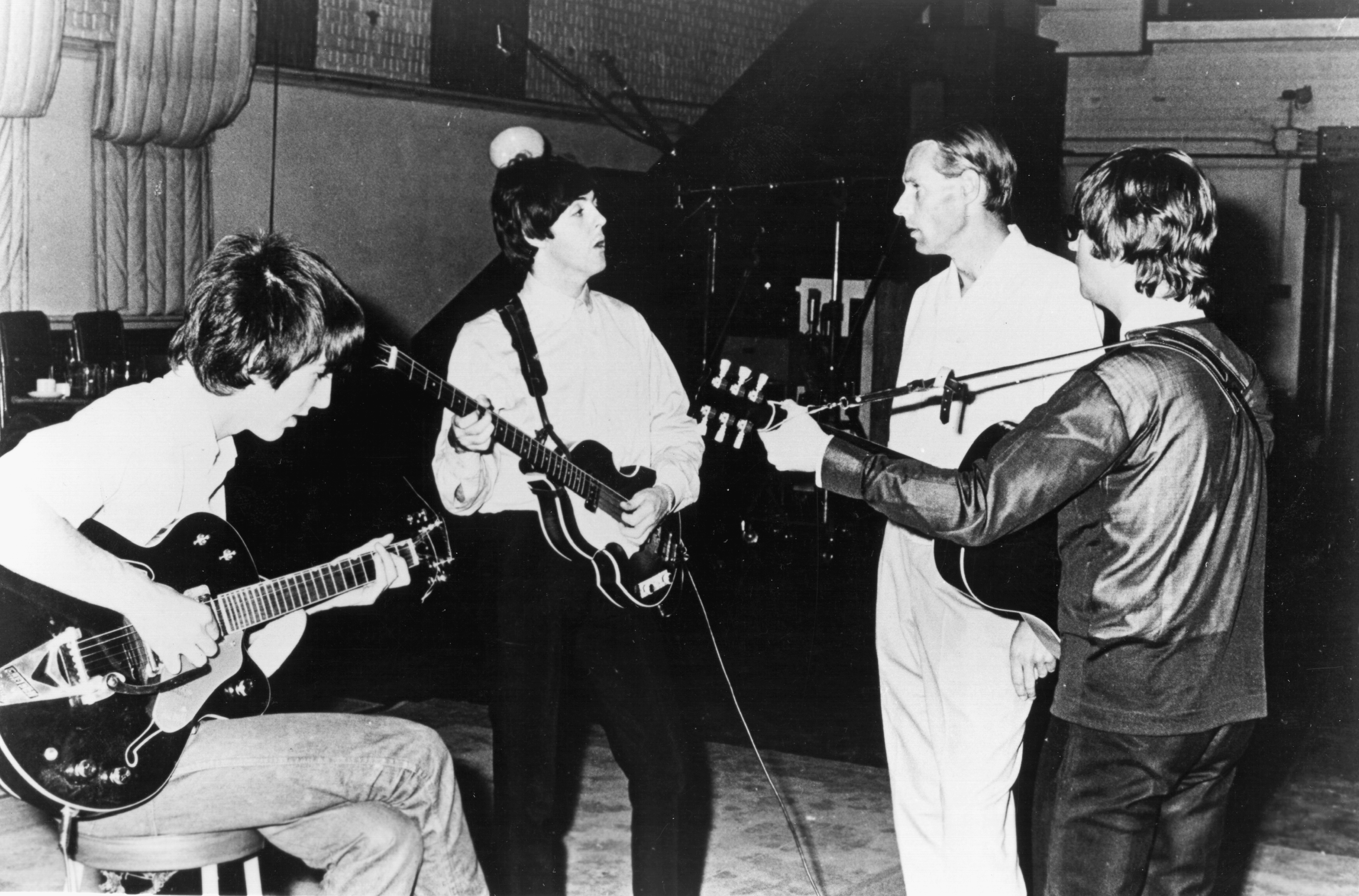 Publicity photo of the Beatles with producer George Martin in the studio at Abbey Road. Only John Lennon, George Harrison and Paul McCartney are pictured.